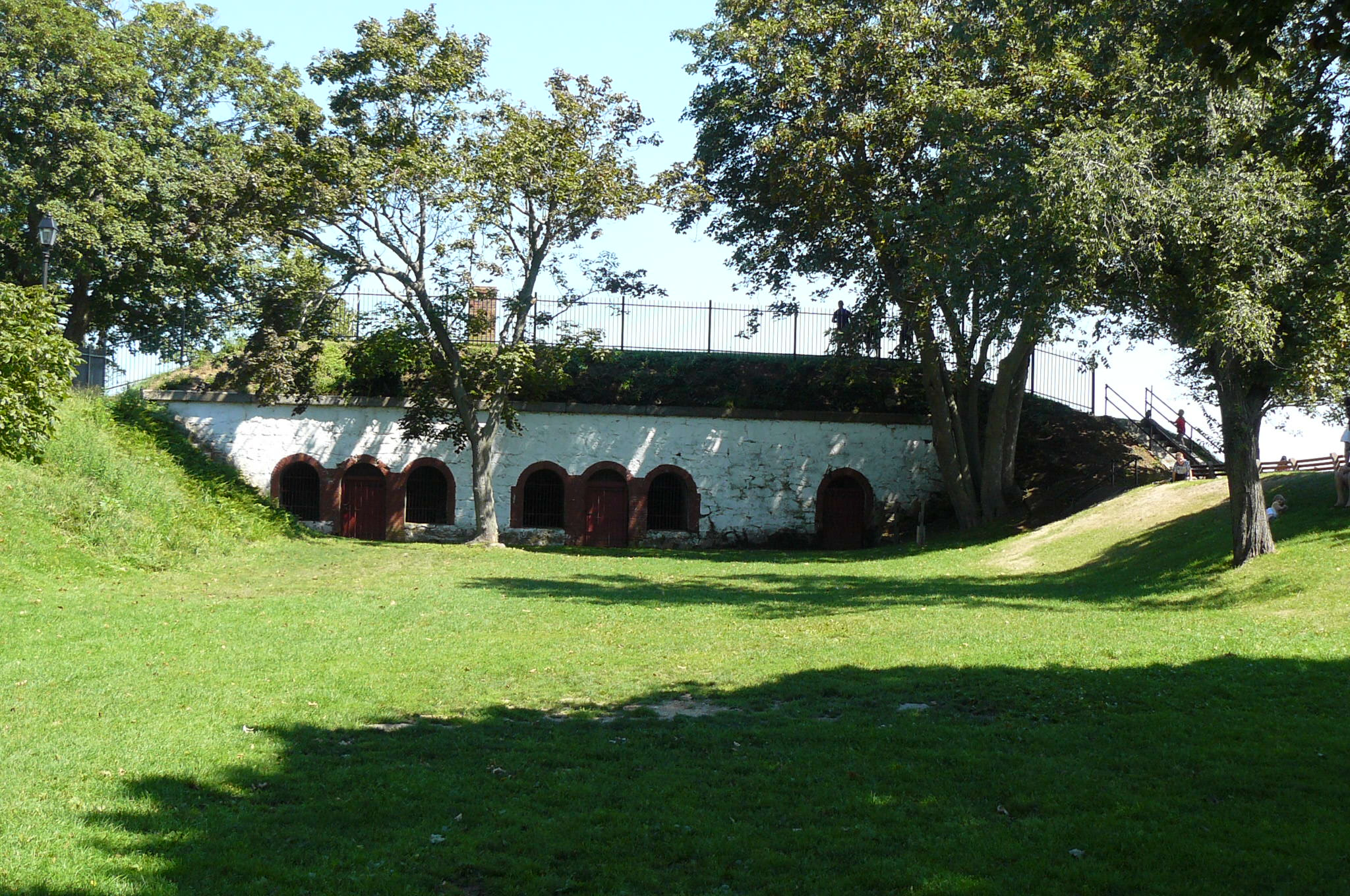 Inside view of Fort Sewall